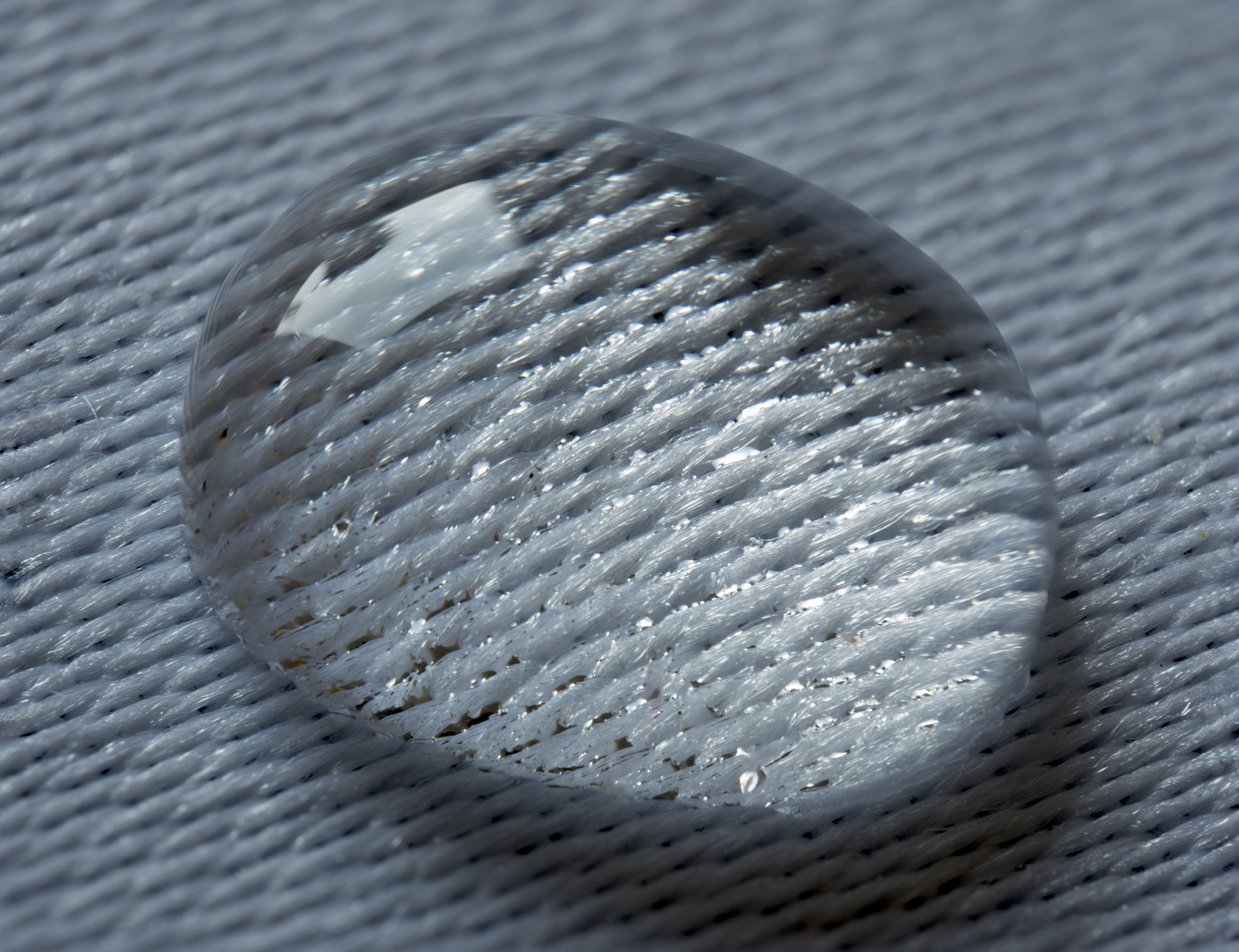 Water droplet lying on a damask textile due to surface tension and low absorption of textile. Focus stacking: 24 shots, step 5; Raynox 250. Length of droplet around 6-7 mm.